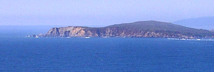 Bodega Head in Sonoma County, looking north from Tomales Point